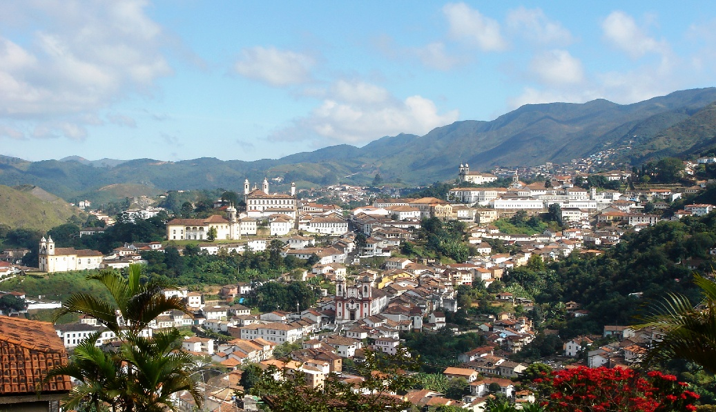 Ouro Preto seen from Hill